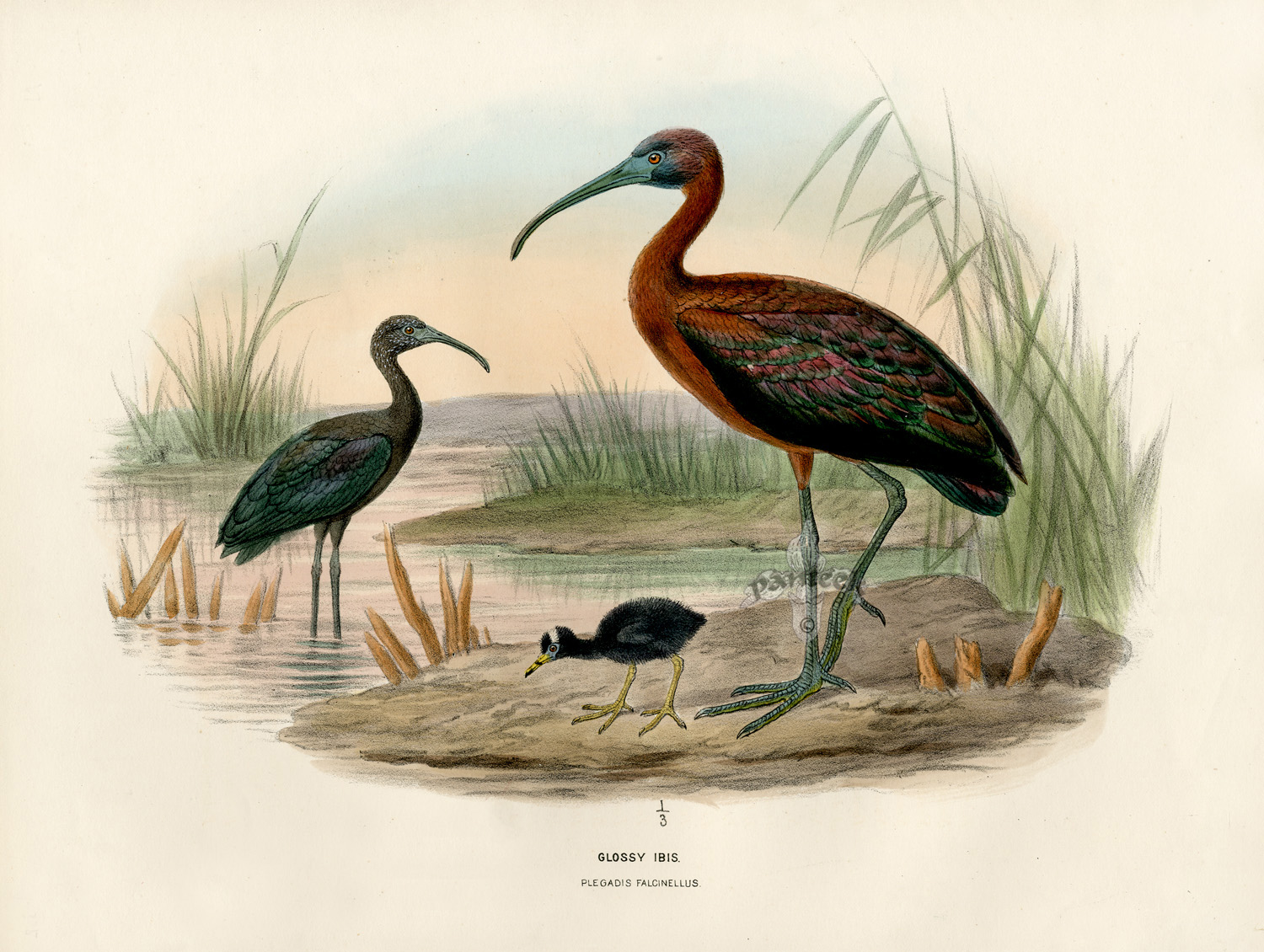 Glossy Ibis by John Gerrard Keulemann in Dresser's Birds of Europe, volume 6 plate 409